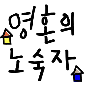 Korean podcast "Homeless Soul" logo image